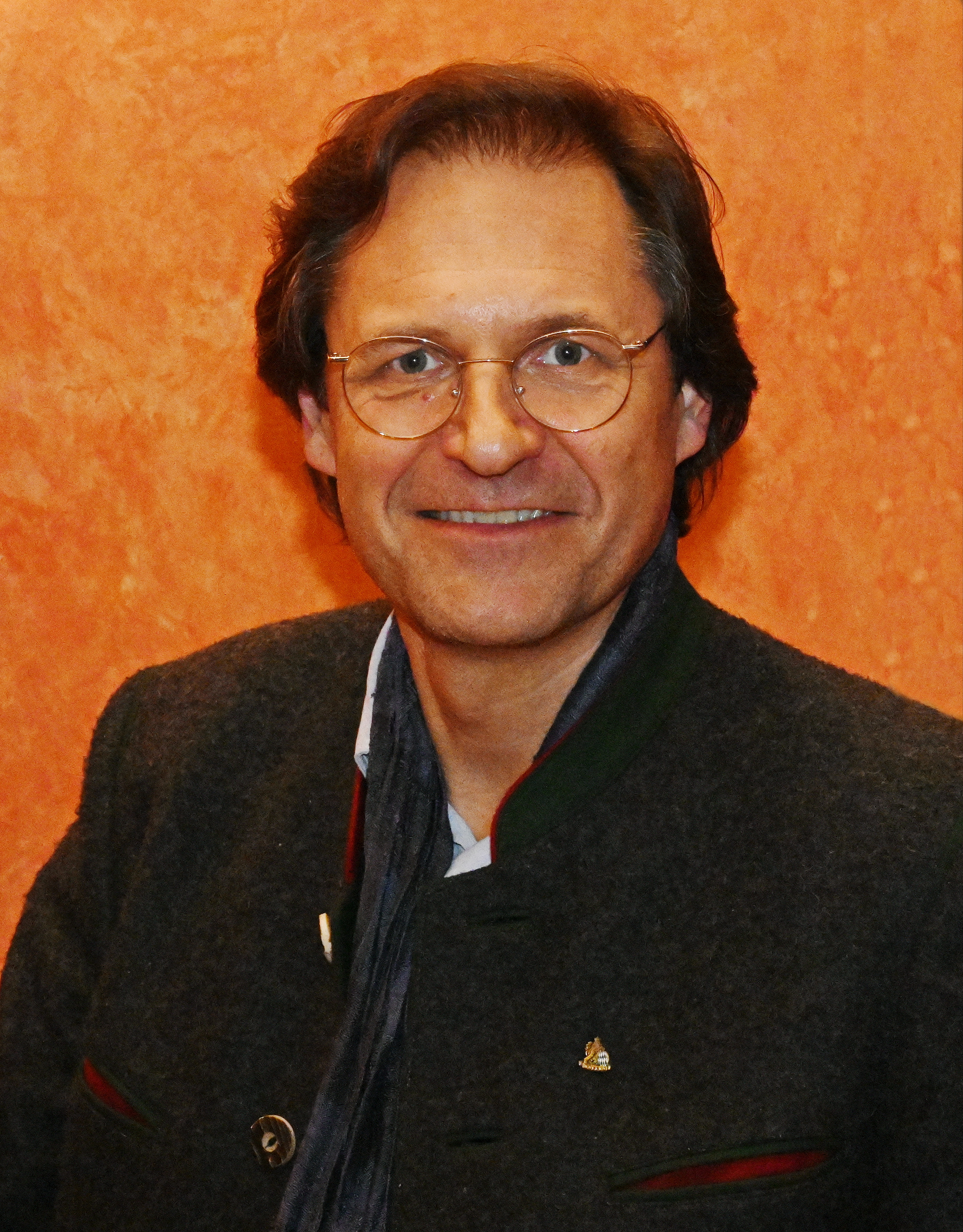 Winfried Frey